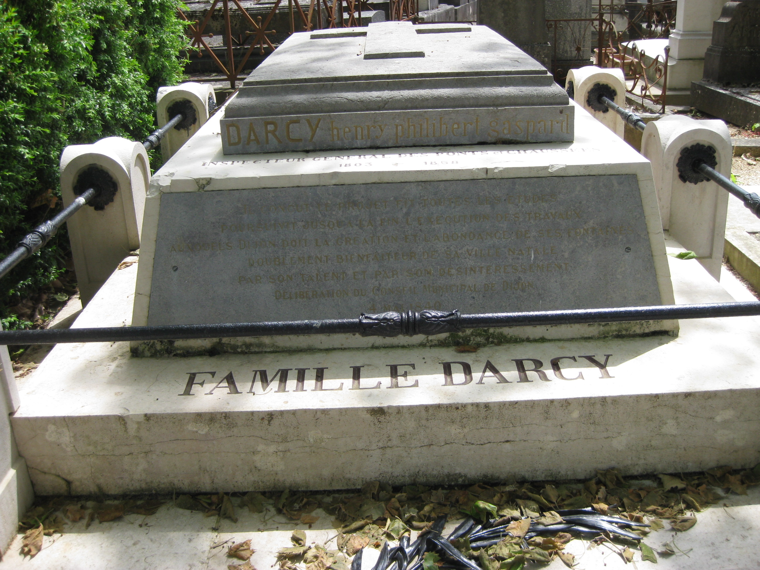 The grave of Henry Darcy is located about 2.7 miles southeast of the memorial garden at Place Darcy (Dijon, France). The exact grave site is Sector D', Tomb #1 and is located at 47º 18.319'N, 5º 03.987'E. Also search Google Maps.